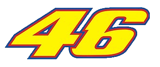 Startnumber Valentino Rossi 2013